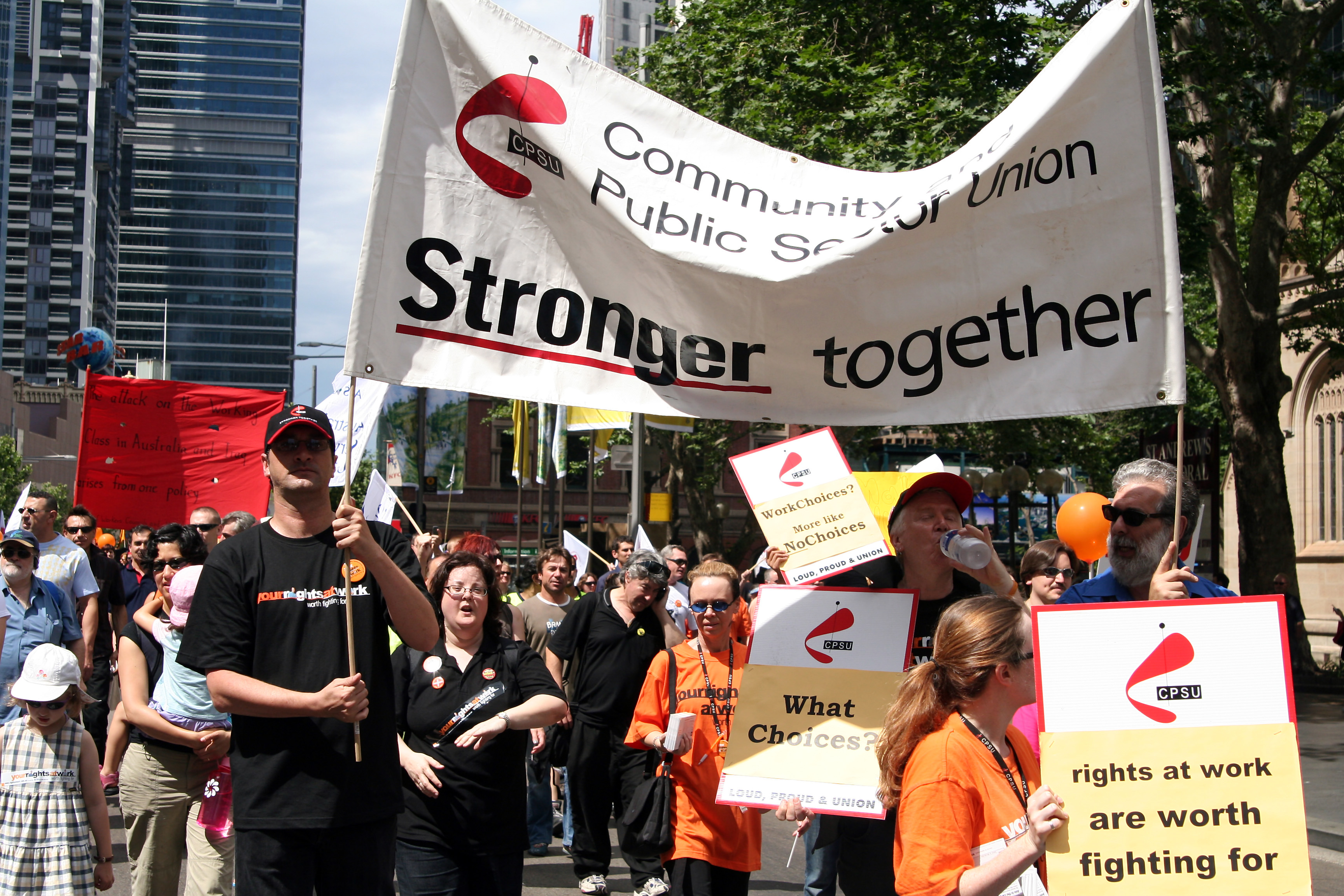 This photo is relevant to the Australia NSW Sydney IRProtest.